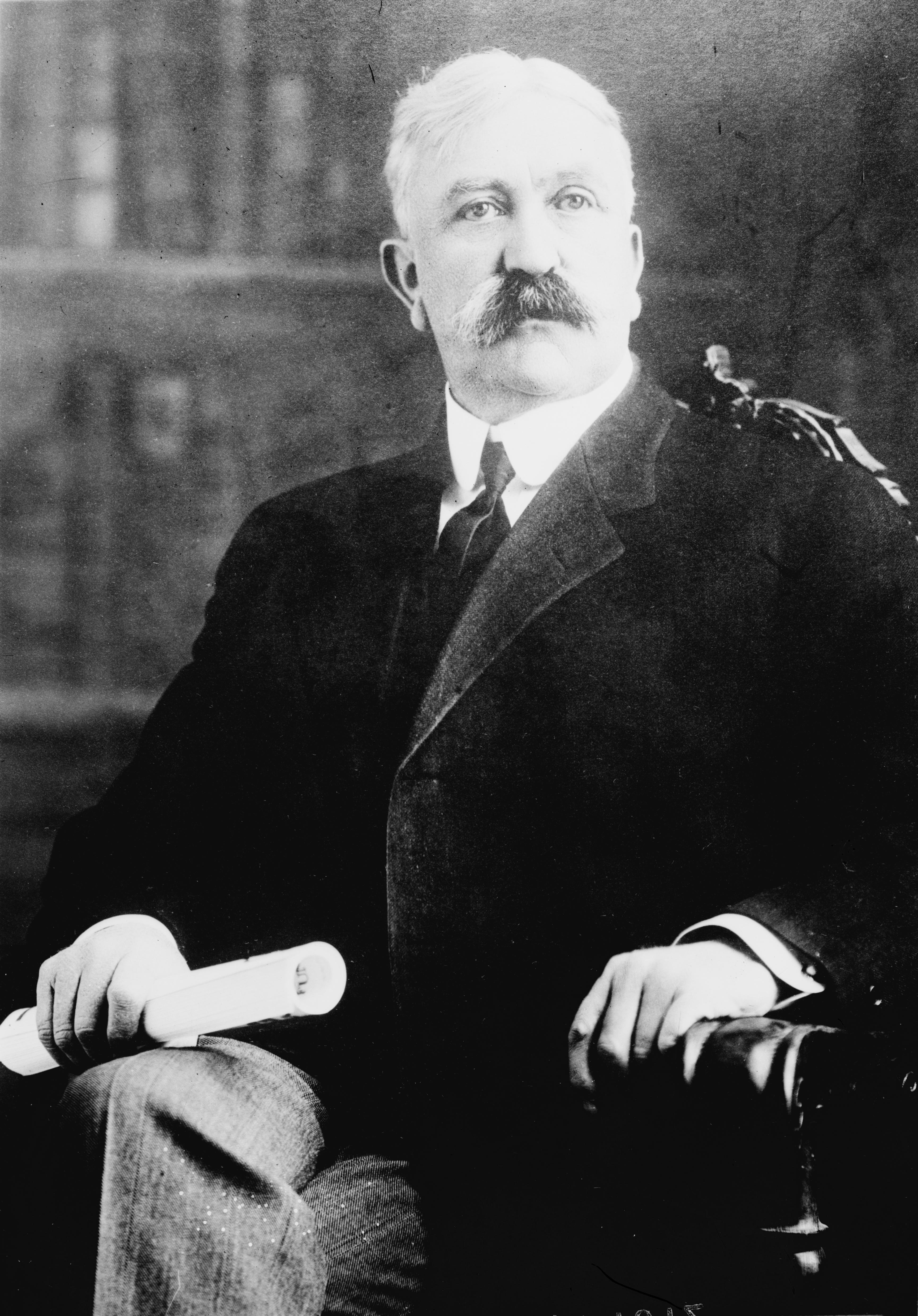 Marcus Aurelius Smith